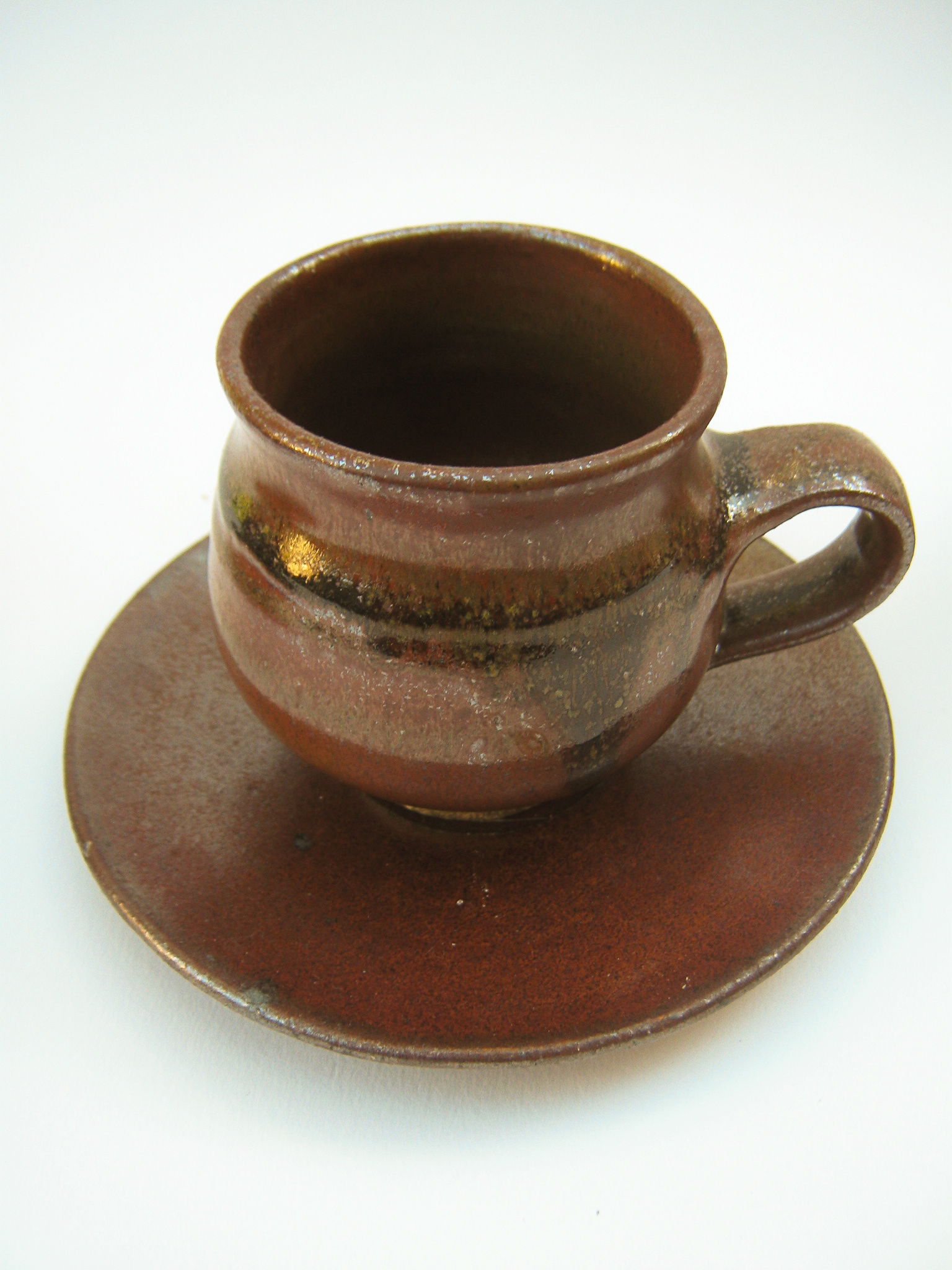 Stoneware cup and saucer by Ian Sprague 1960s; photographed in a private collection at Elwood Victoria